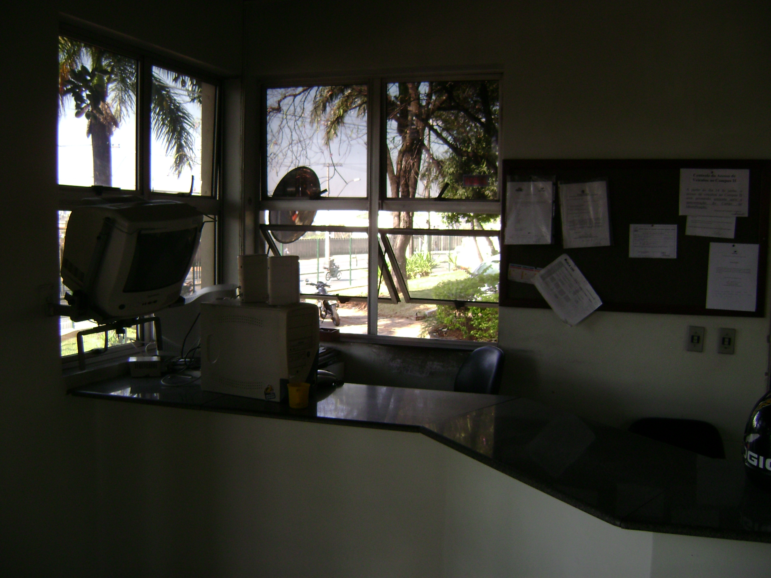 Lobby of Cefet-MG campus II, in Belo Horizonte, Brazil.